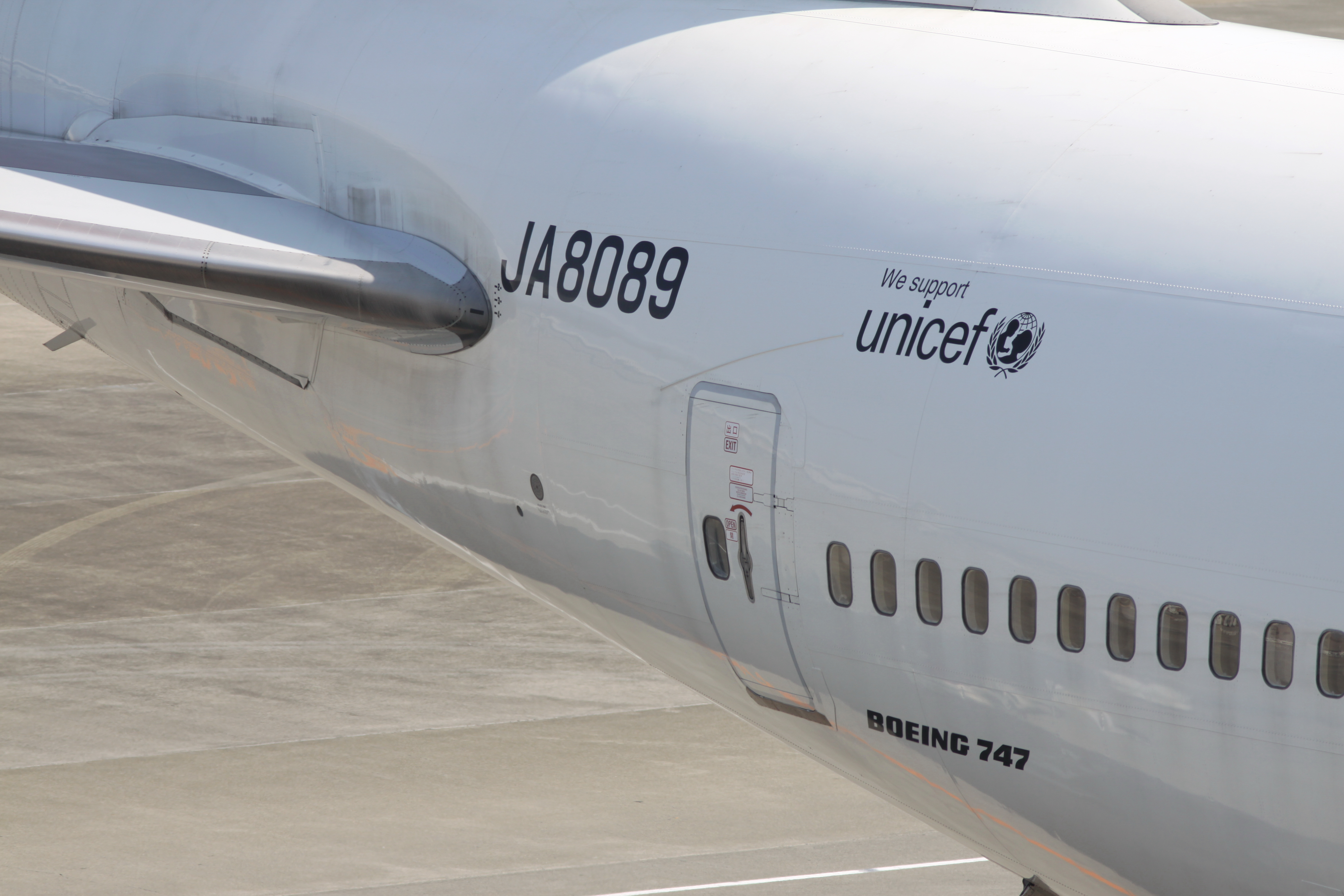 Narita International Airport, Boeing 747-446, c/n:26342, Japan Airlines